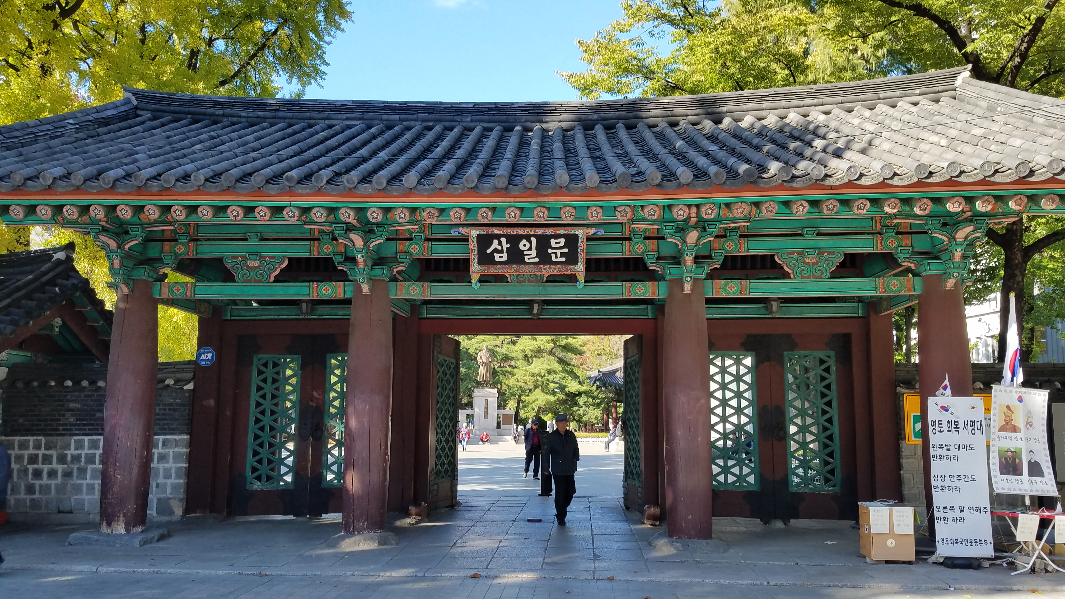 Entrance to Tapgol Park. Center writing says "3 1 Door" where "3 1" refers to the March 1st 1919 Independence Movement.